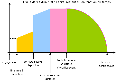 Loan Life cycle